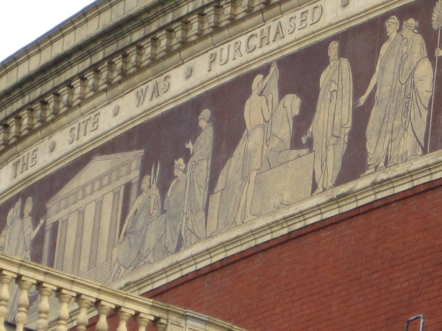 The Triumph of Art. Terracotta frieze in sixteen sections designed by Pickersgill, Horsley, Marks, Yeames, Armitage, Poynter and Armstead